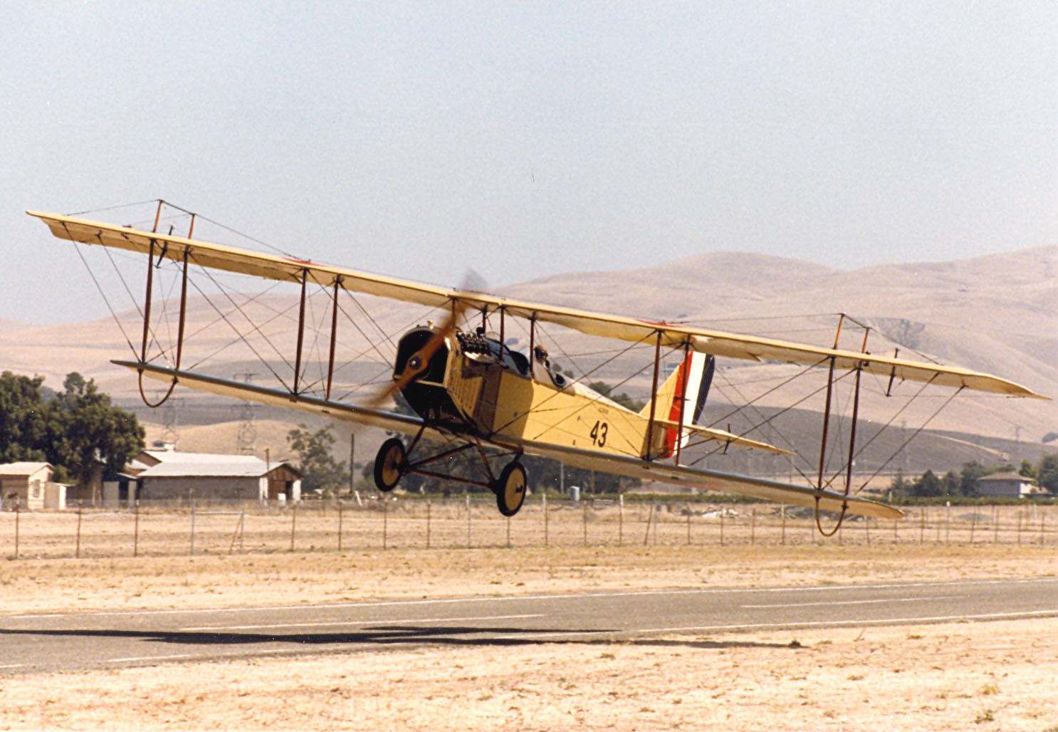 Curtiss JN-4 takeoff